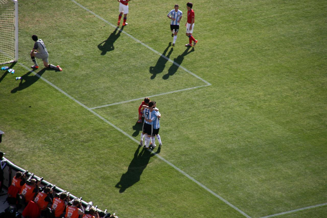 During the game between Argentina and South Korea at FIFA World Cup 2010, 17 June 2010, Soccer City, Johannesburg. Argentina's Gonzalo Higuain celebrates his hat trick with teammates.